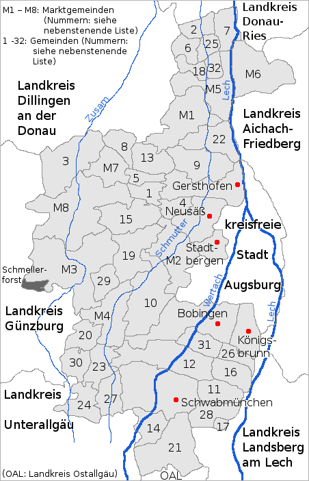 the district of Augsburg - german